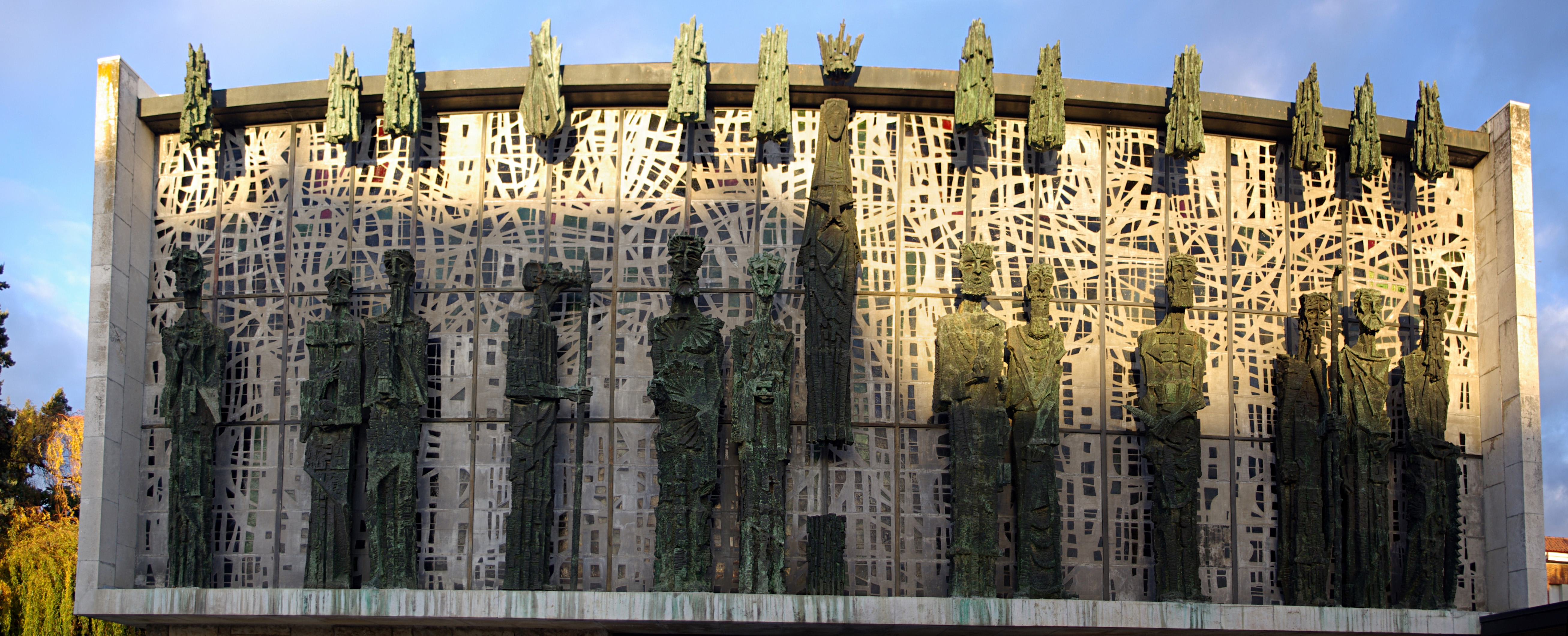 Panoramic of bronze sculptures by Josep Maria Subirachs. Sanctuary of La Virgen del Camino portal, Valverde de la Virgen (León, Spain) in the Way of Saint James.